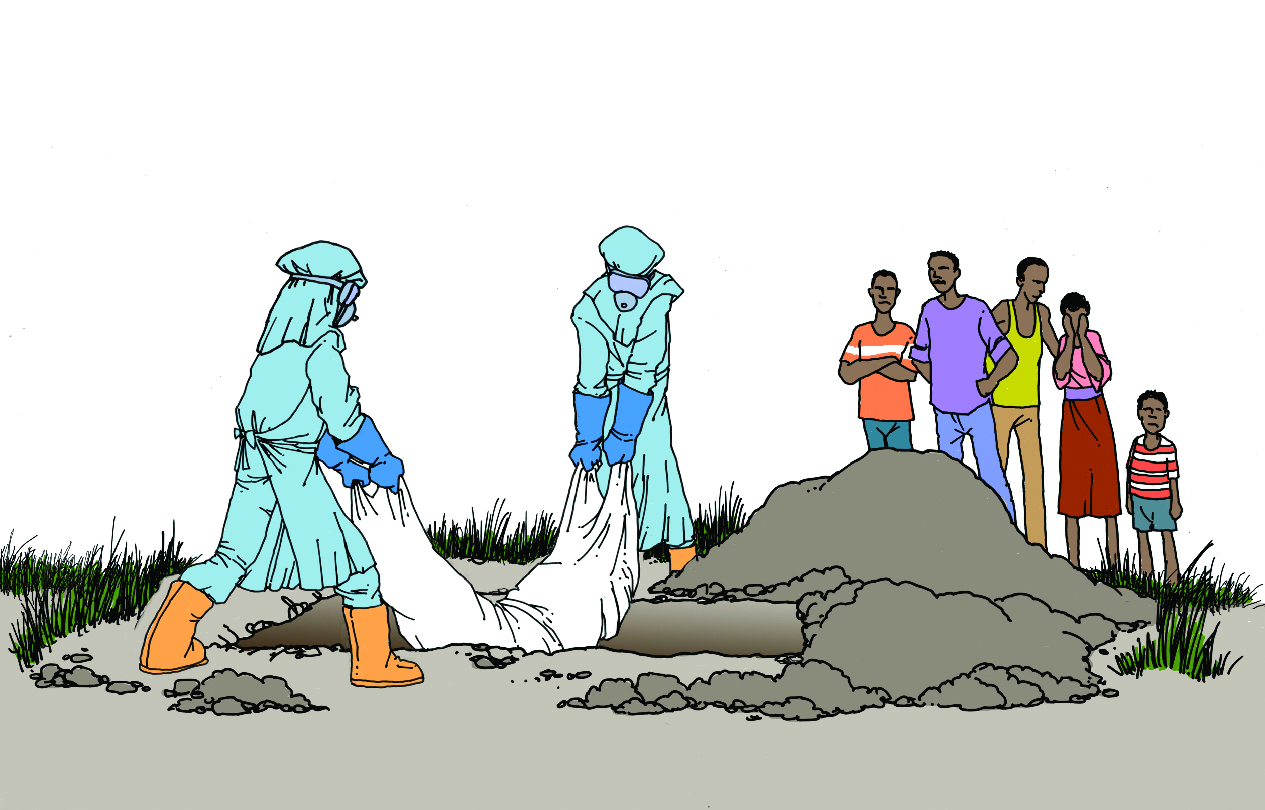 For more information on Ebola and what CDC is doing, please visit